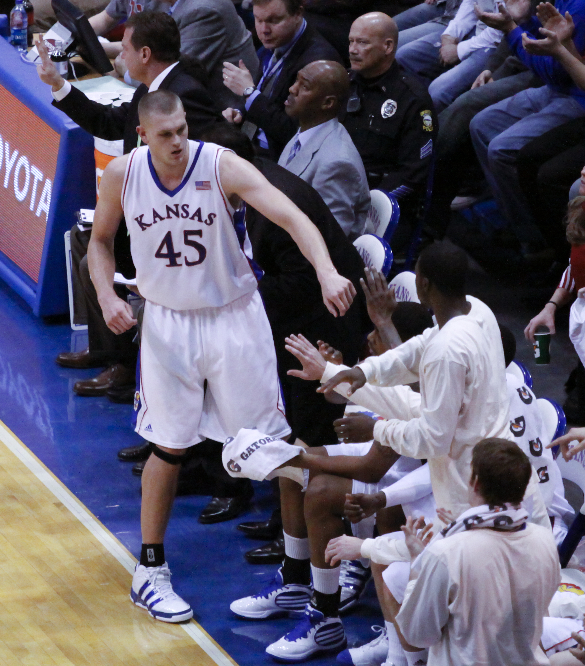 Cole Aldrich of Kansas Jayhawks men's basketball greeted by the bench